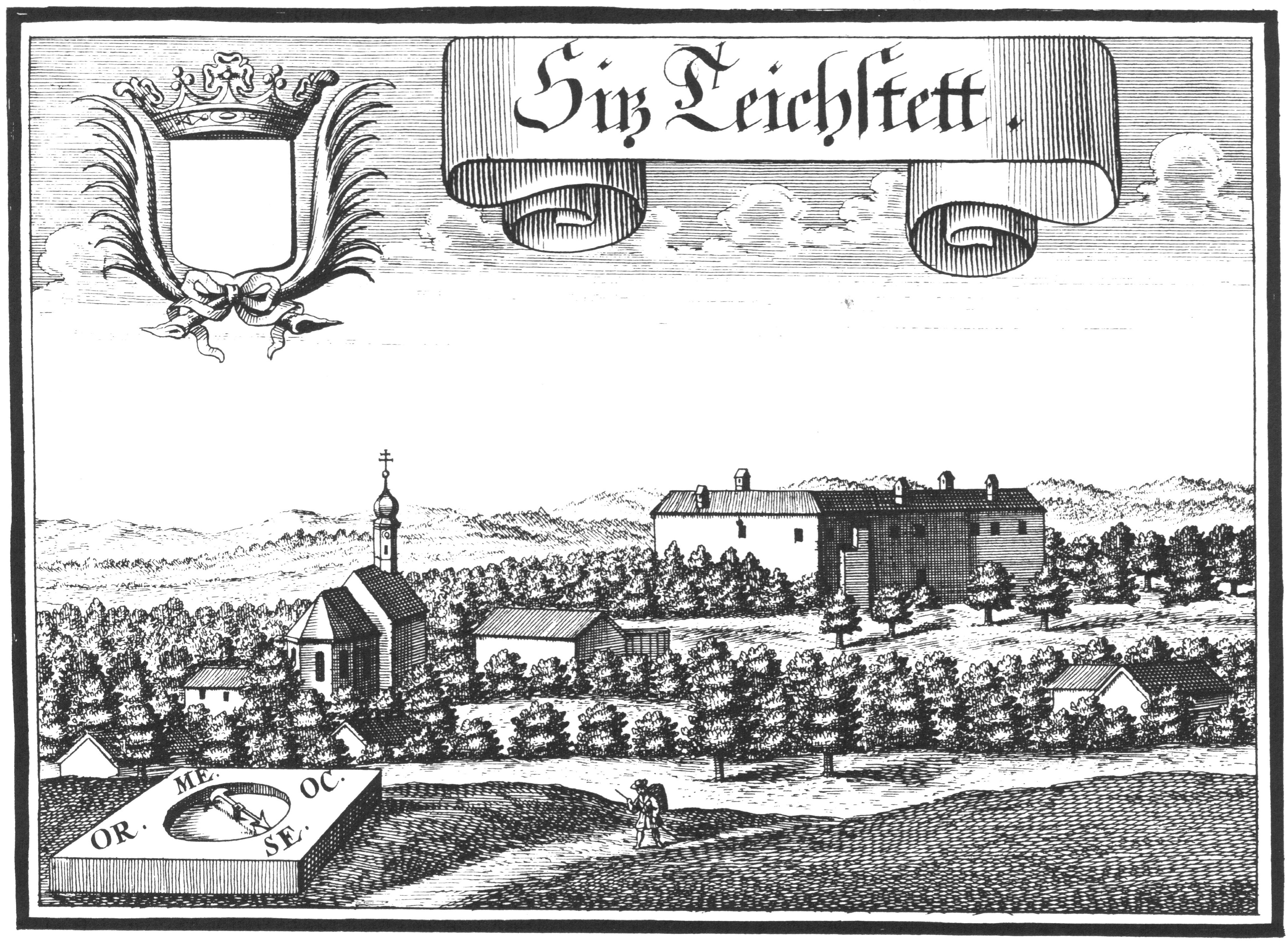 Michael Wening: Engraving of Teichstätt castle, Upper Austria (ca. 1721)